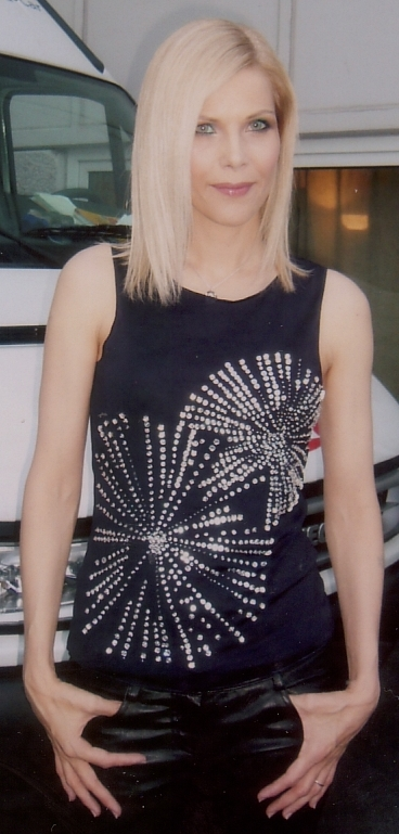 German singer C.C.Catch at the RTL TV show 'Chart-Show' on 16.09.2006